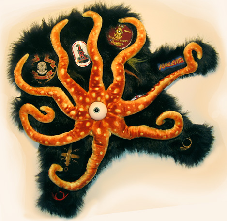 Marcus Clarke created this Puppetised, PuppetTVGraffiti work for his DogHorse Coat Art Exhibition. Held at The Floor 1 Gallery, Nottingham Central Library, Angel Row, Nottingham